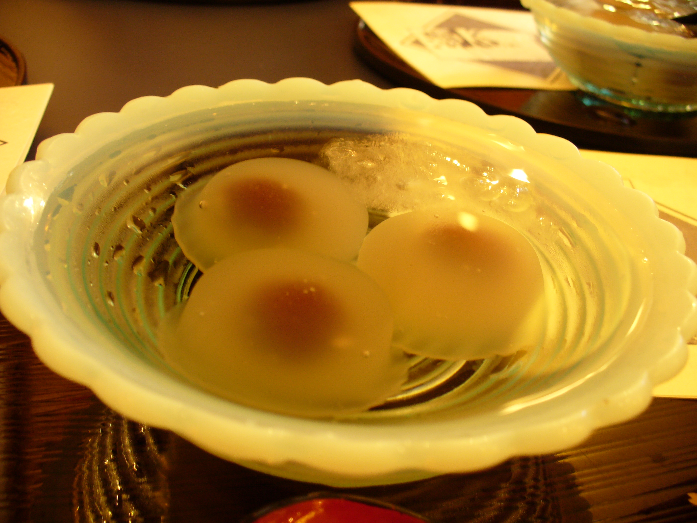 Photograph of Mizumanju,taken in Ogaki city, Gifu, Japan. (a Ogaki speciality)